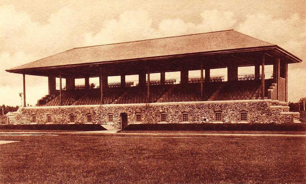 The Hubbard Grandstand, Bowdoin College, Brunswick, ME; from a 1912 postcard. Designed by Henry Vaughan, the grandstand at Whittier Field was built in 1904.